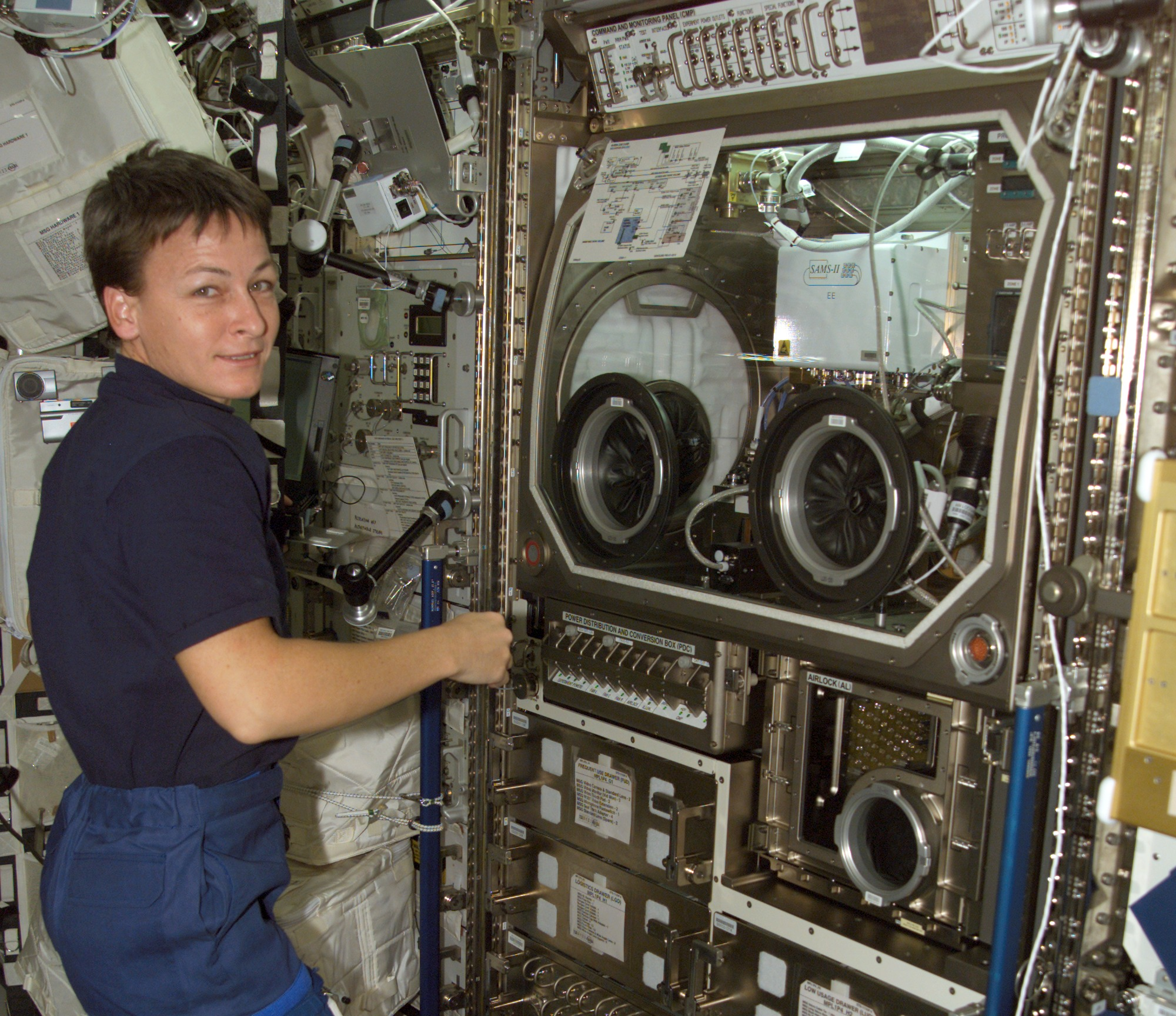 Astronaut Peggy A. Whitson, Expedition Five flight engineer, works near the Microgravity Science Glovebox in the Destiny laboratory on the International Space Station.